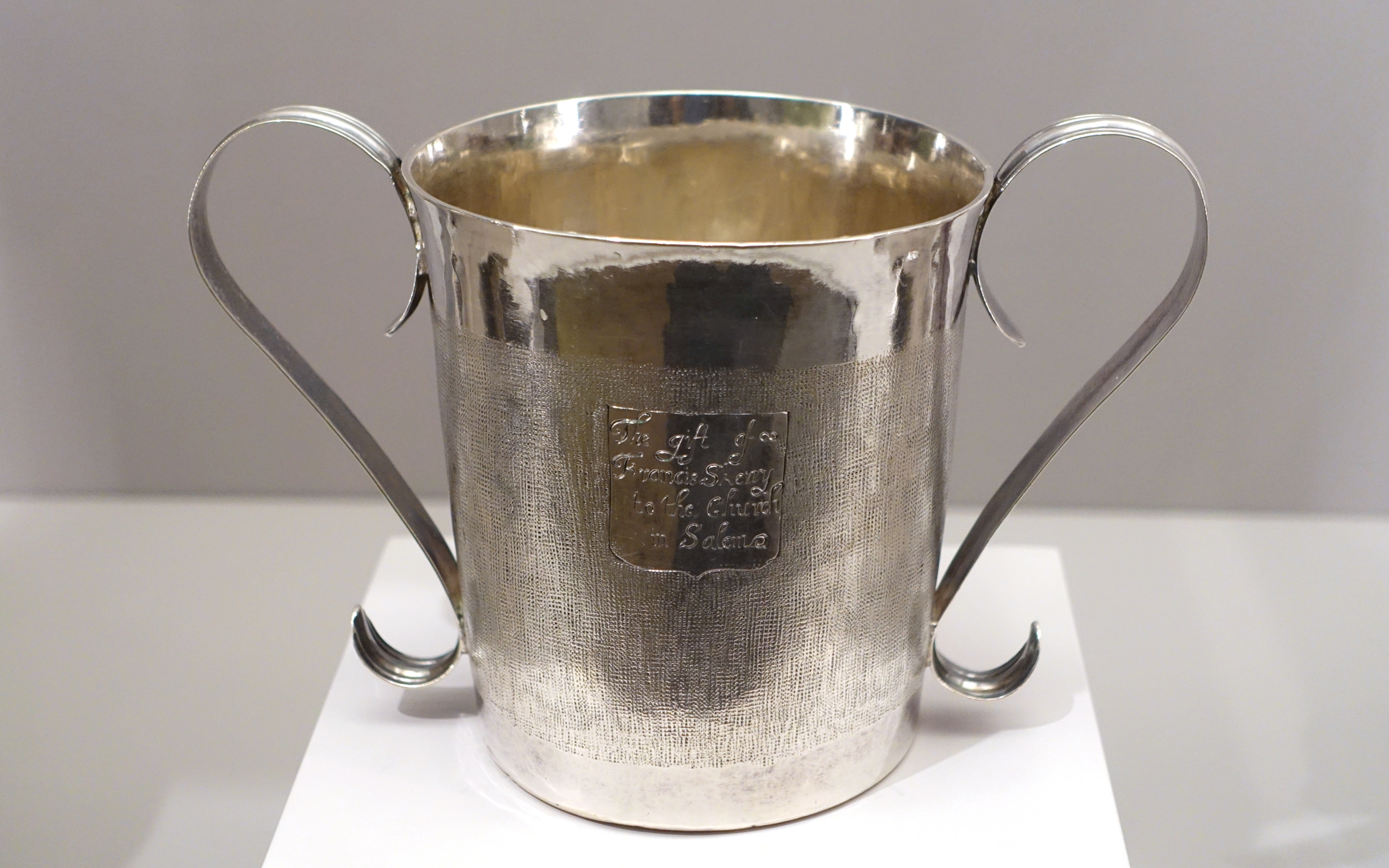 Exhibit in the Fogg Art Museum, Harvard University, Cambridge, Massachusetts, USA. This artwork is in the public domain because the artist died more than 70 years ago.